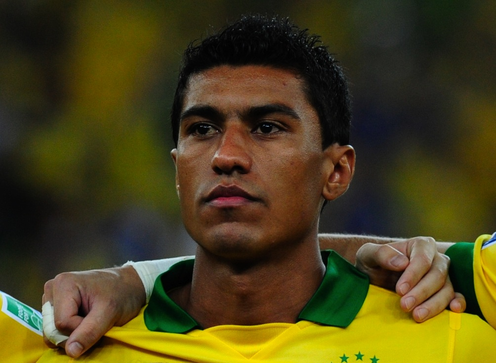 Paulinho before the 2013 FIFA Confederations Cup Final